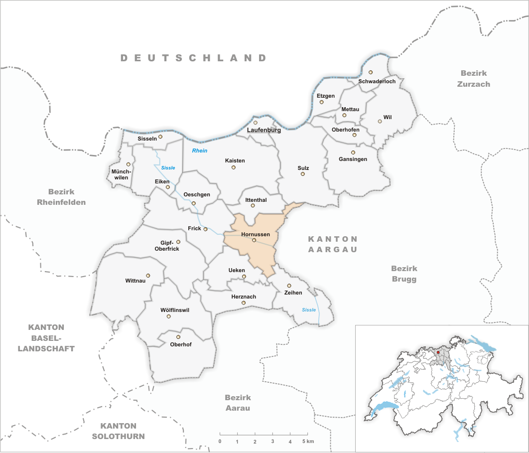 Municipality Hornussen